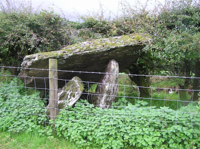 Glenroan Portal Tomb. The tomb known on OS maps as "Dermot and Graina's Bed" dates back to 3000BC It is a single chambered, megalithic tomb with a dramatic capstone which rests in a fallen position across two portal stones and is one of the many prehistoric monuments to be found in the Glenelly Valley and wider Sperrins region.